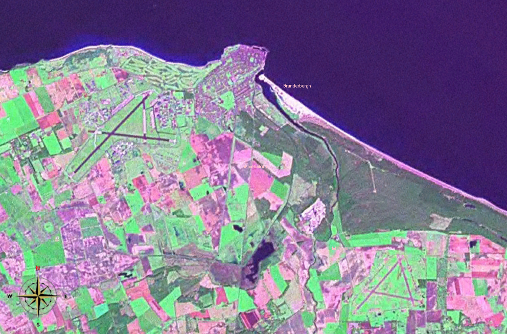 Lossiemouth from space